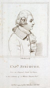 George Edward Ayscough - son of Francis Ayscough. George was known as Captain Ayscough. Guards officer and dramatist